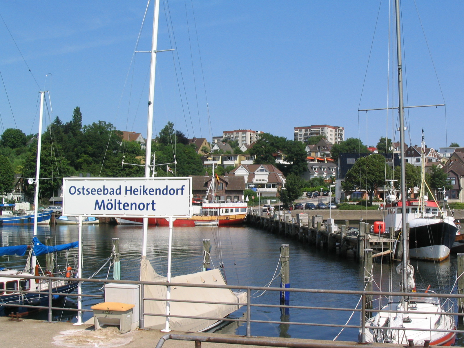 Kiel-Möltenort from the water